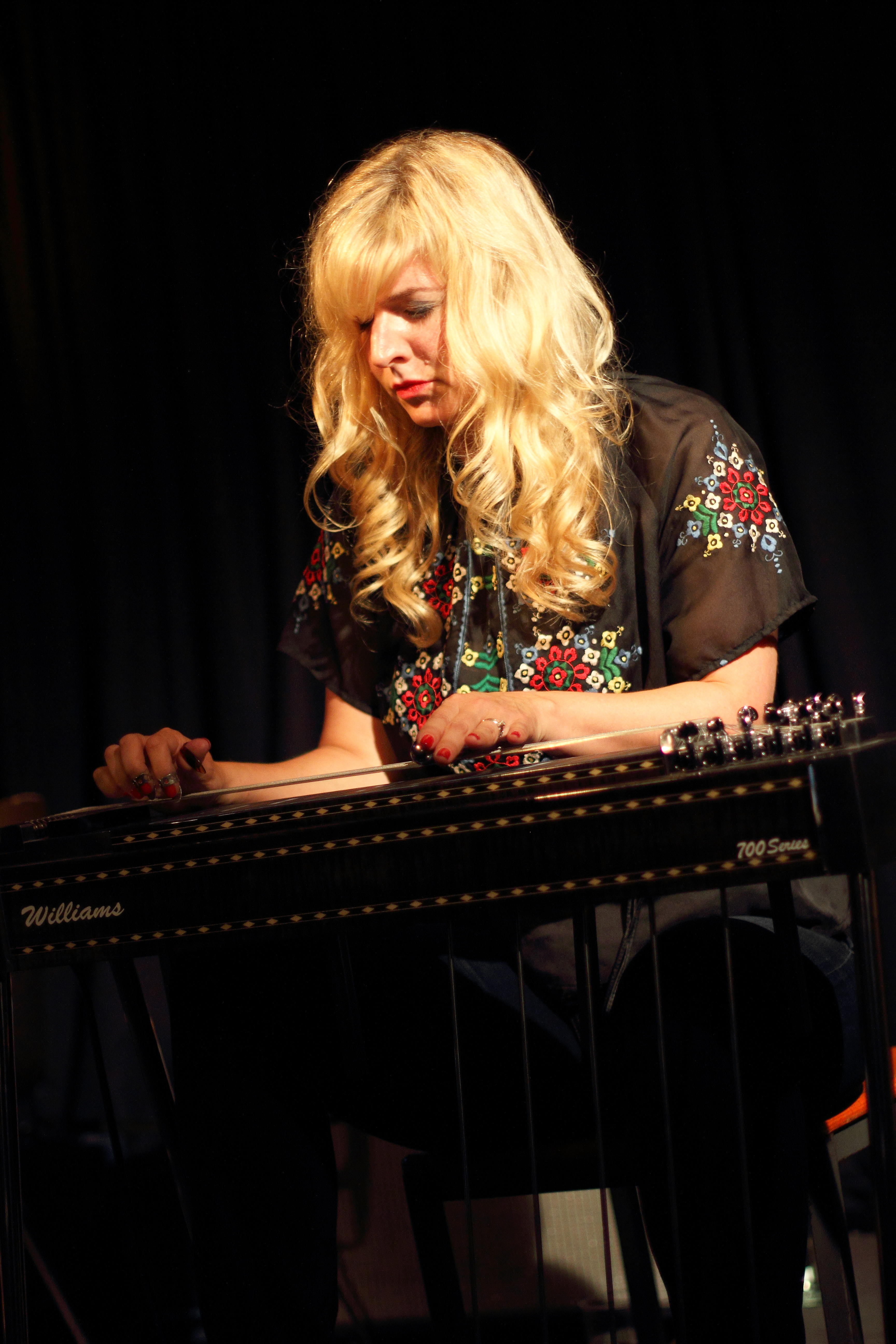 Pedal steel player Heather Leigh in concert at Club W71, Weikersheim.